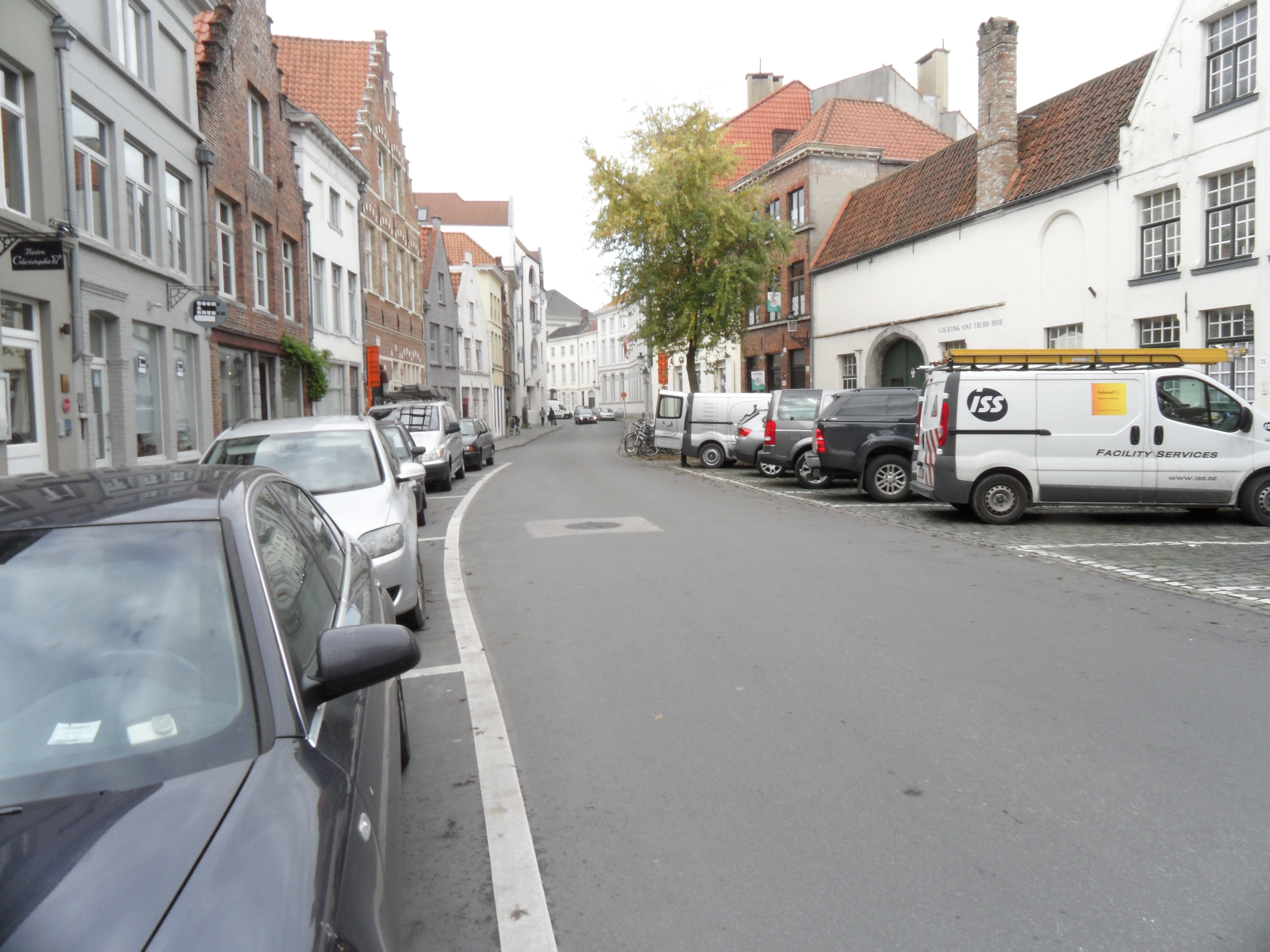 Garenmarkt